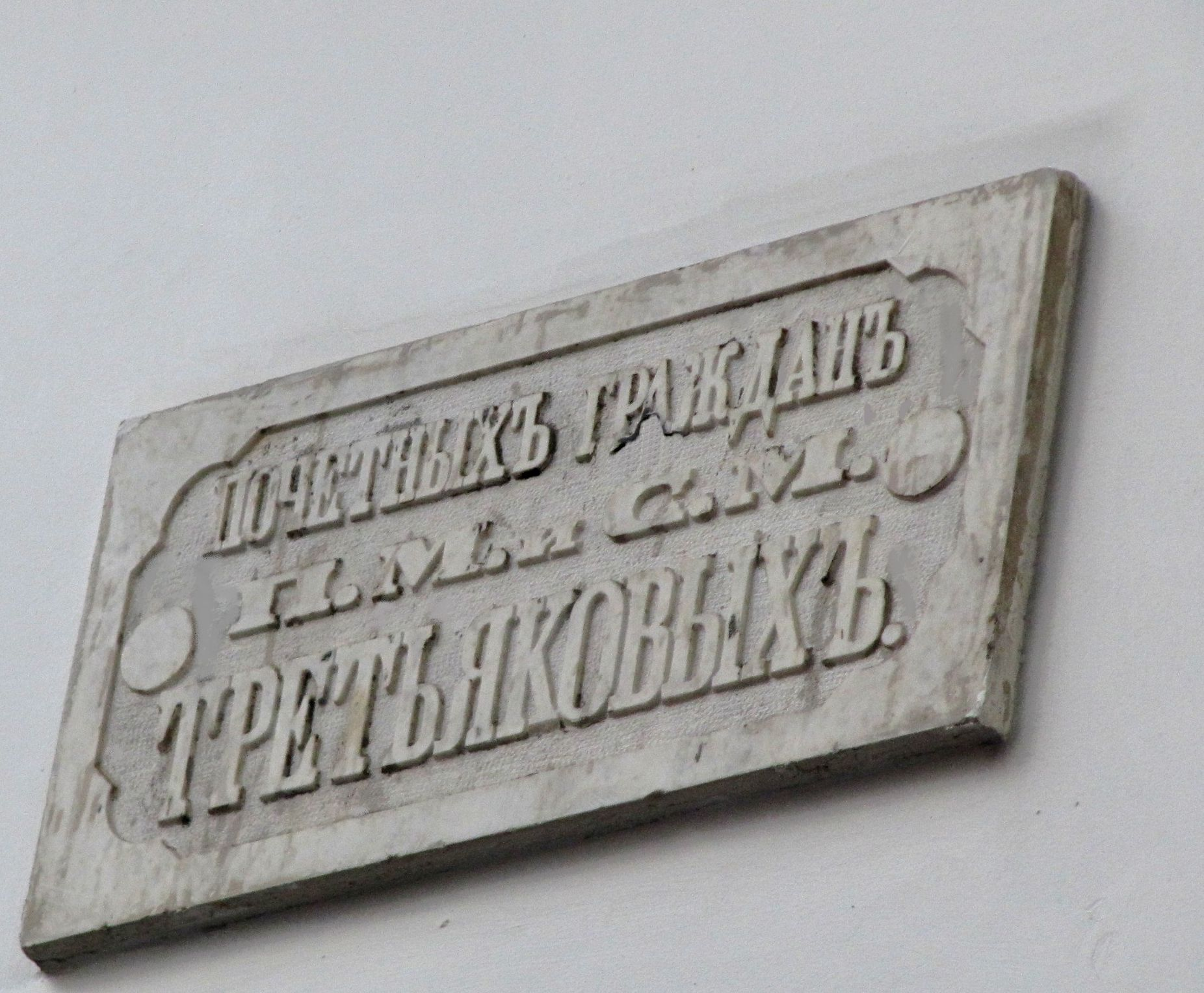 Commemorative Plaque about Tretyakov brothers on the passage in their name